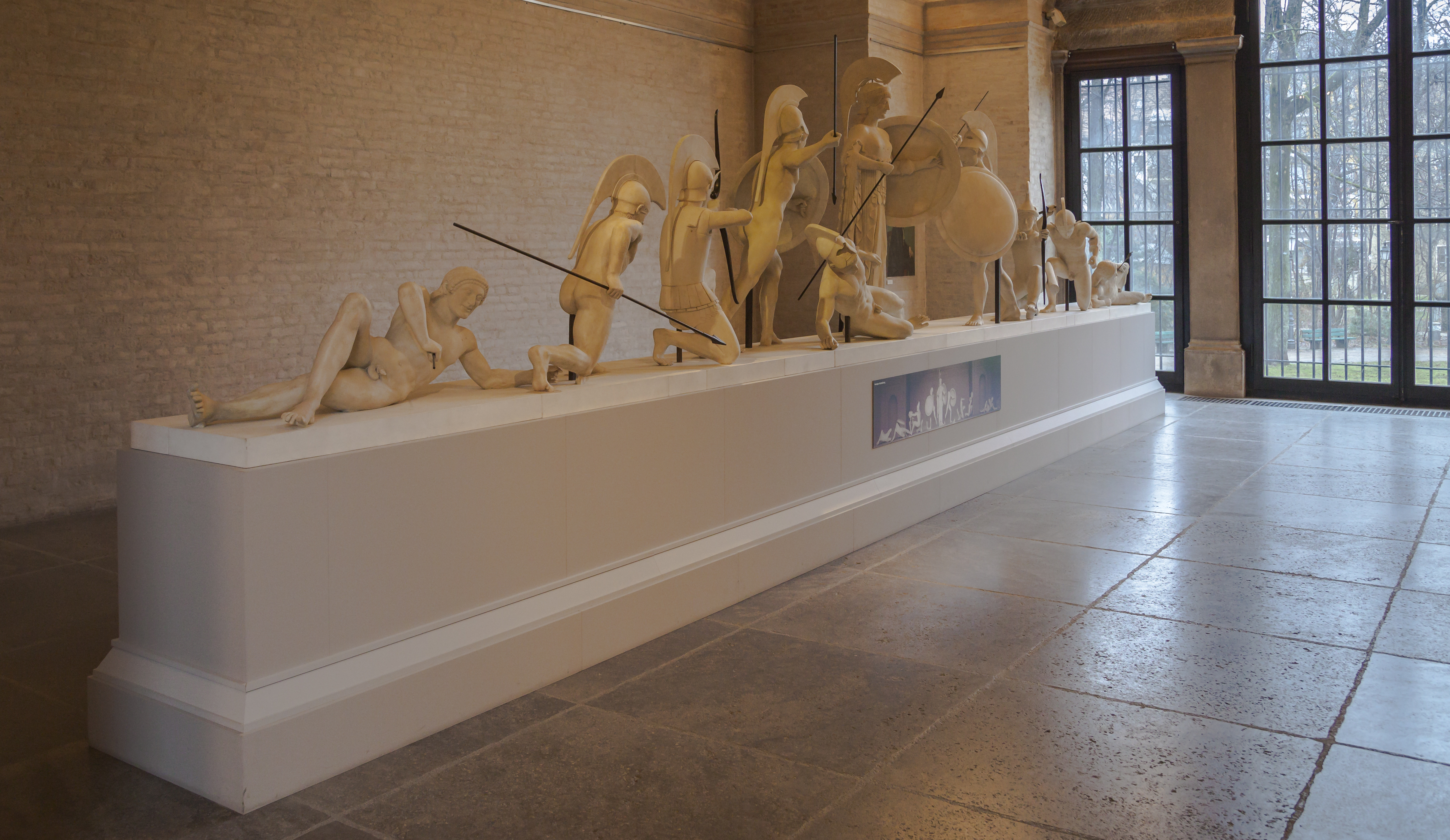 Figures of the Aphai temple, Glyptothek, Munich, Germany